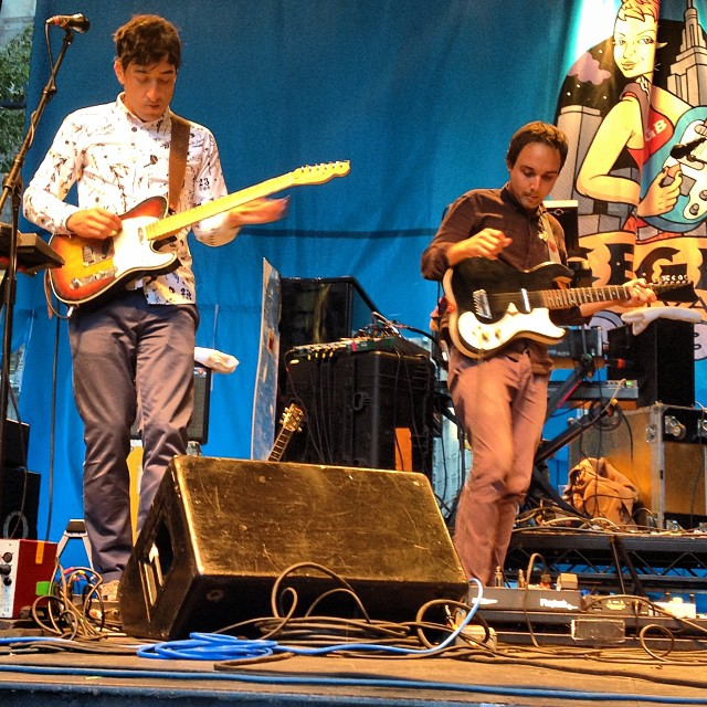 Ed Droste and Daniel Rossen of the band Grizzly Bear at the CBGB Festival 2013